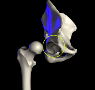 Acetabulum by Stephen Woods (me)